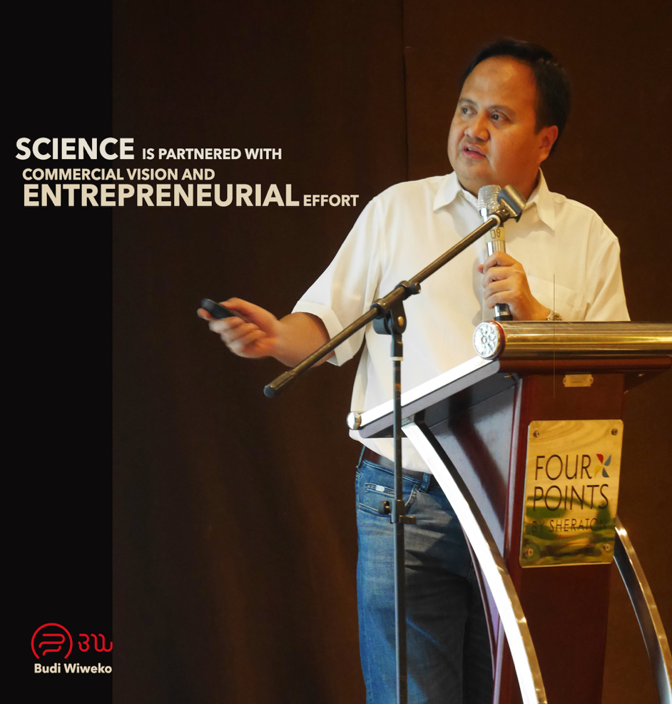 Foto profil professor budi wiweko, ketika sedang mengisi salah satu konferensi di Four points, Sheraton